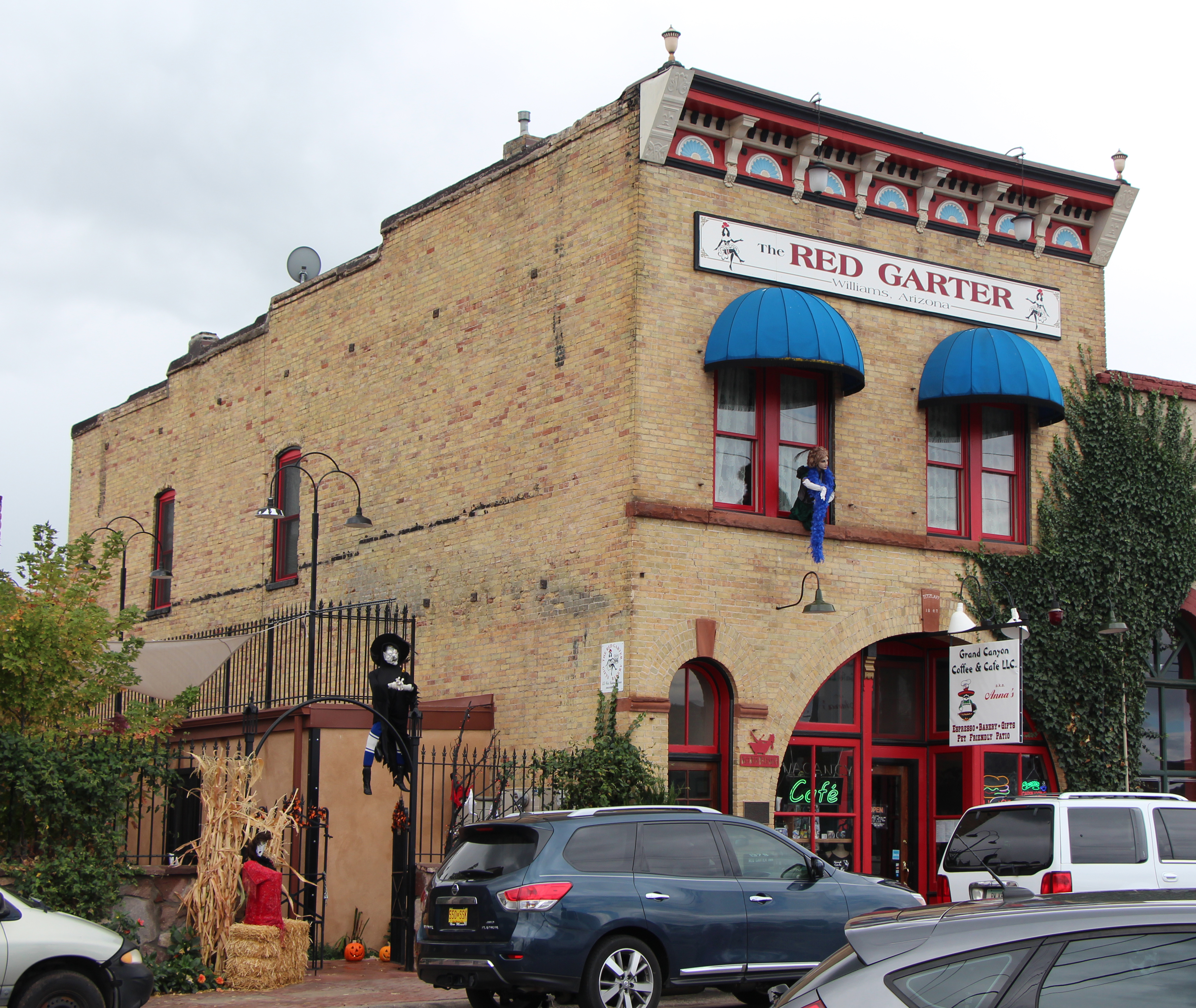 Tetzlaff Building, 137 W. Railroad Ave., Williams, Az